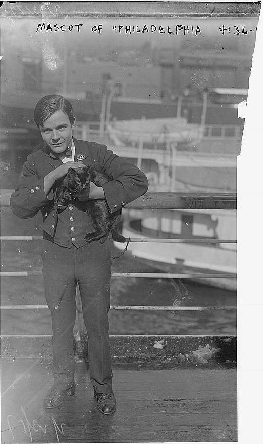 Bain News Service,, publisher. Mascot of PHILADELPHIA [between ca. 1915 and ca. 1920] 1 negative : glass ; 5 x 7 in. or smaller. Notes: Title from unverified data provided by the Bain News Service on the negatives or caption cards. Forms part of: George Grantham Bain Collection (Library of Congress). Format: Glass negatives. Repository: Library of Congress, Prints and Photographs Division, Washington, D.C. 20540 USA, General information about the Bain Collection is available at Higher resolution image is available (Persistent URL): Call Number: LC-B2- 4136-14